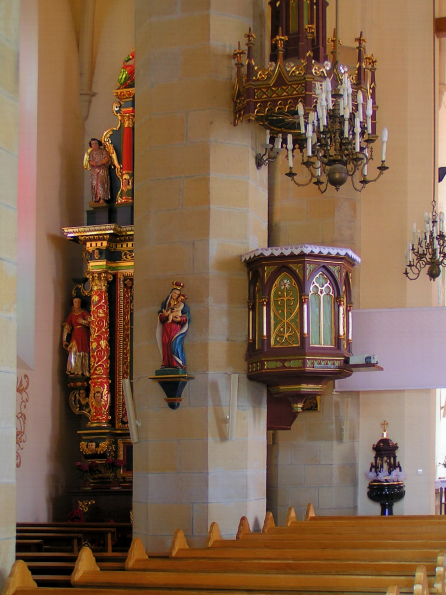 Parish Church of St. Martin the Bishop in Łużna - interior